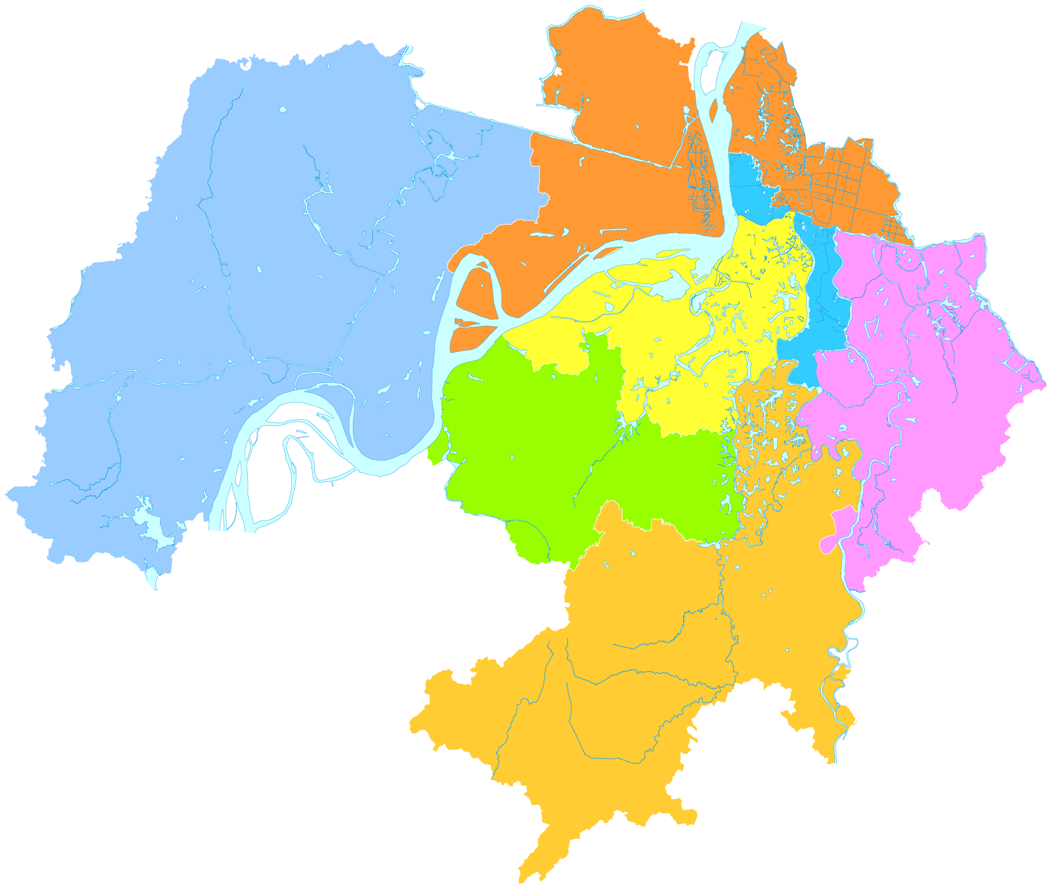 administrative divisions of Wuhu City, Anhui, China